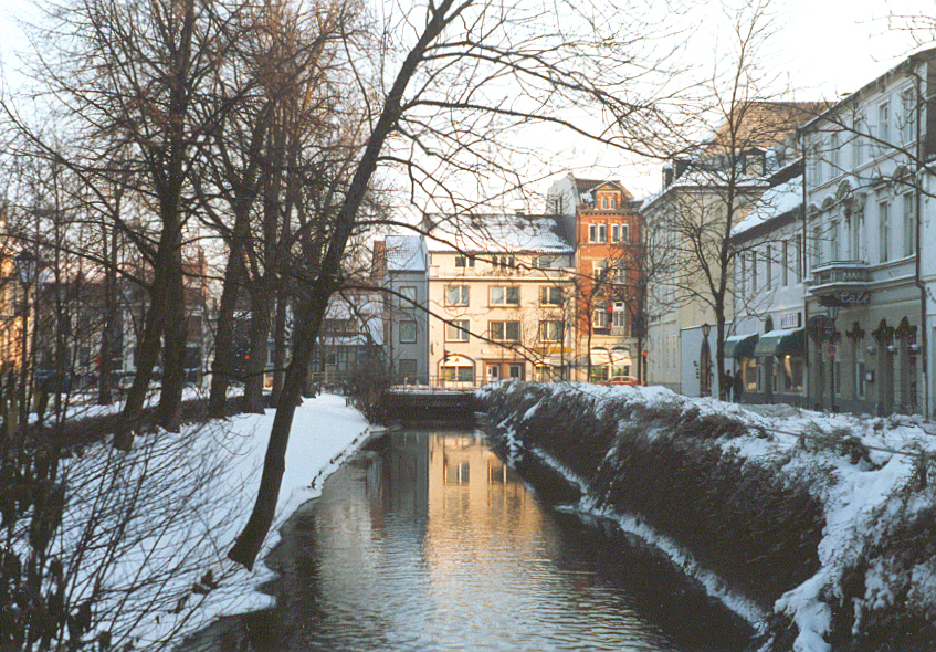 Friedrichstal Channel in Detmold, Germany: View from 1997.